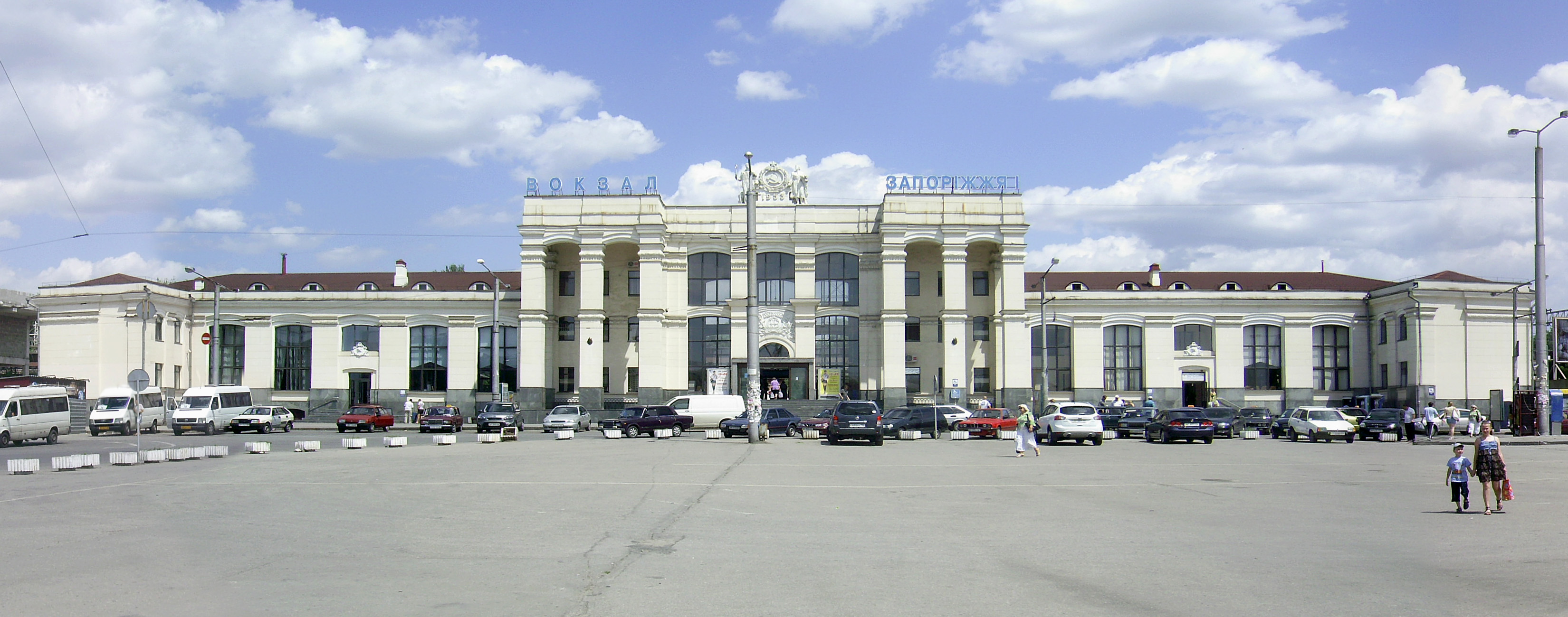 Railway station Zaporozhye-1